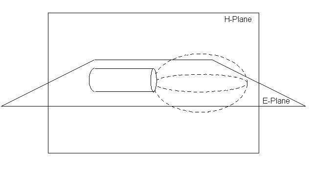 This diagram shows the E and H Planes for a horizontally polarized yagi antenna. Note that the E-Plane is horizontal and H-Plane is vertical.